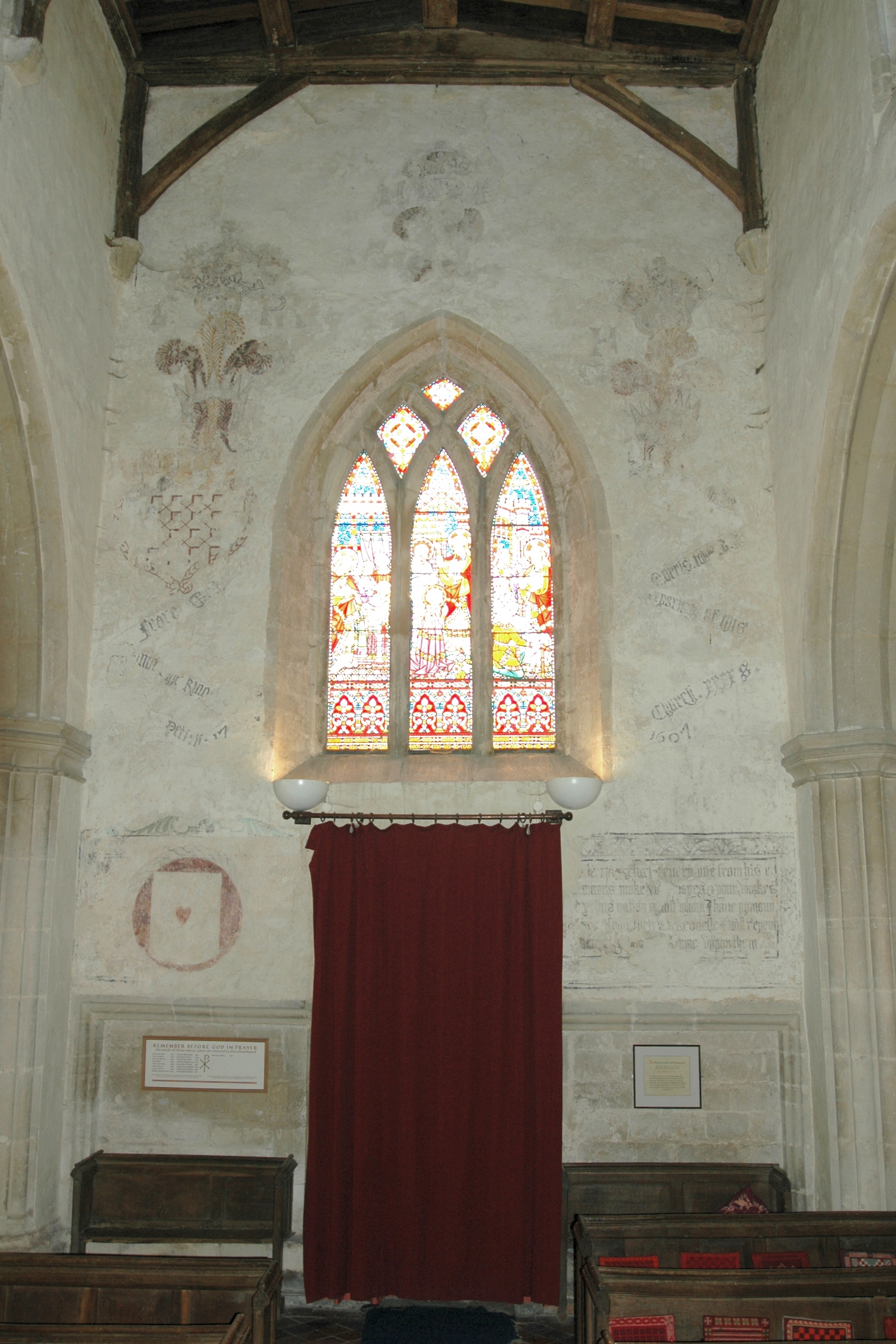 Church of England parish church of the Blessed Virgin Mary, Beckley, Oxfordshire: west end of the nave, showing 18th century wall paintings.